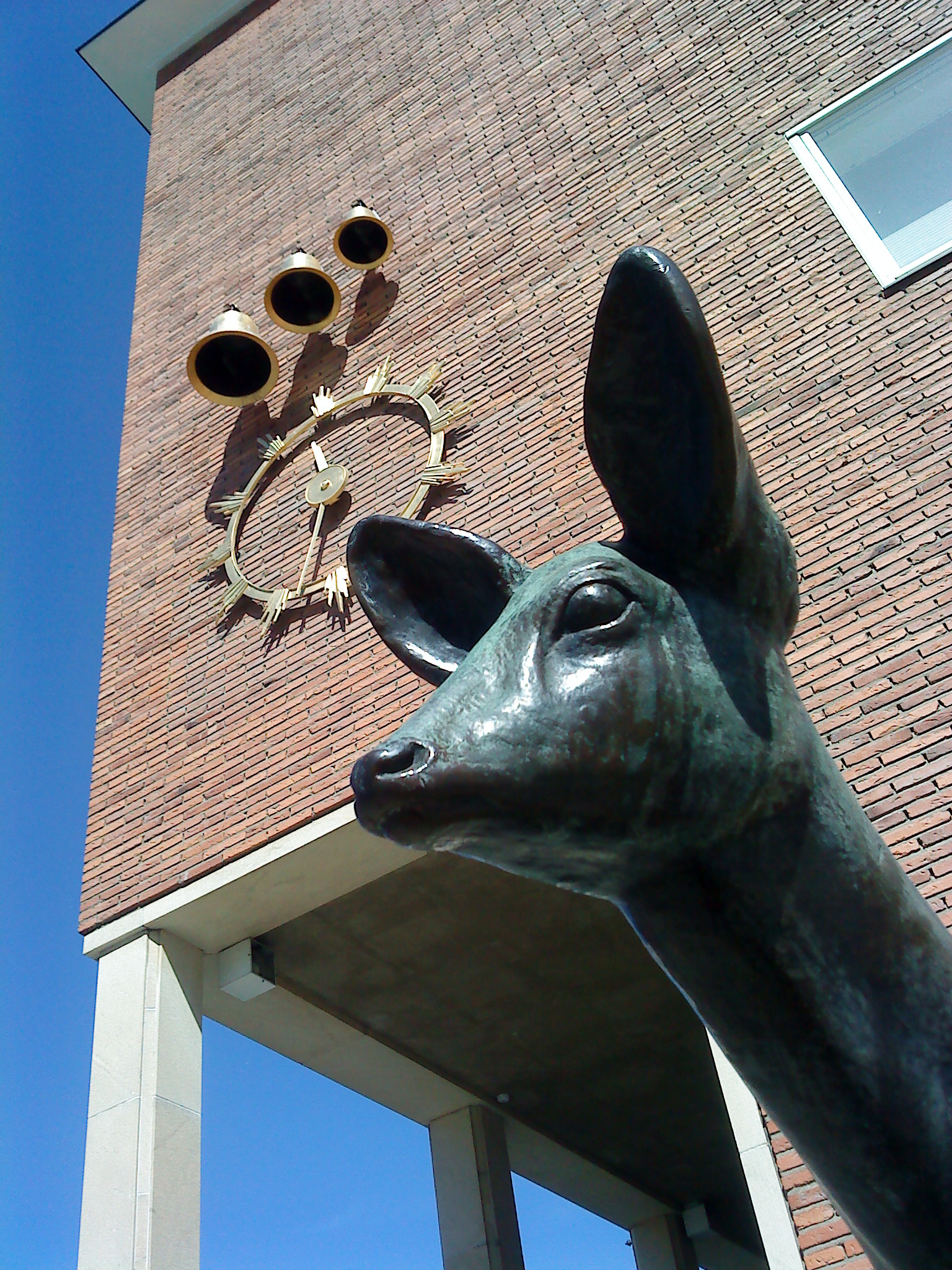 The sculpture "Hjortdjur" by Arvid Knöppel 1956.